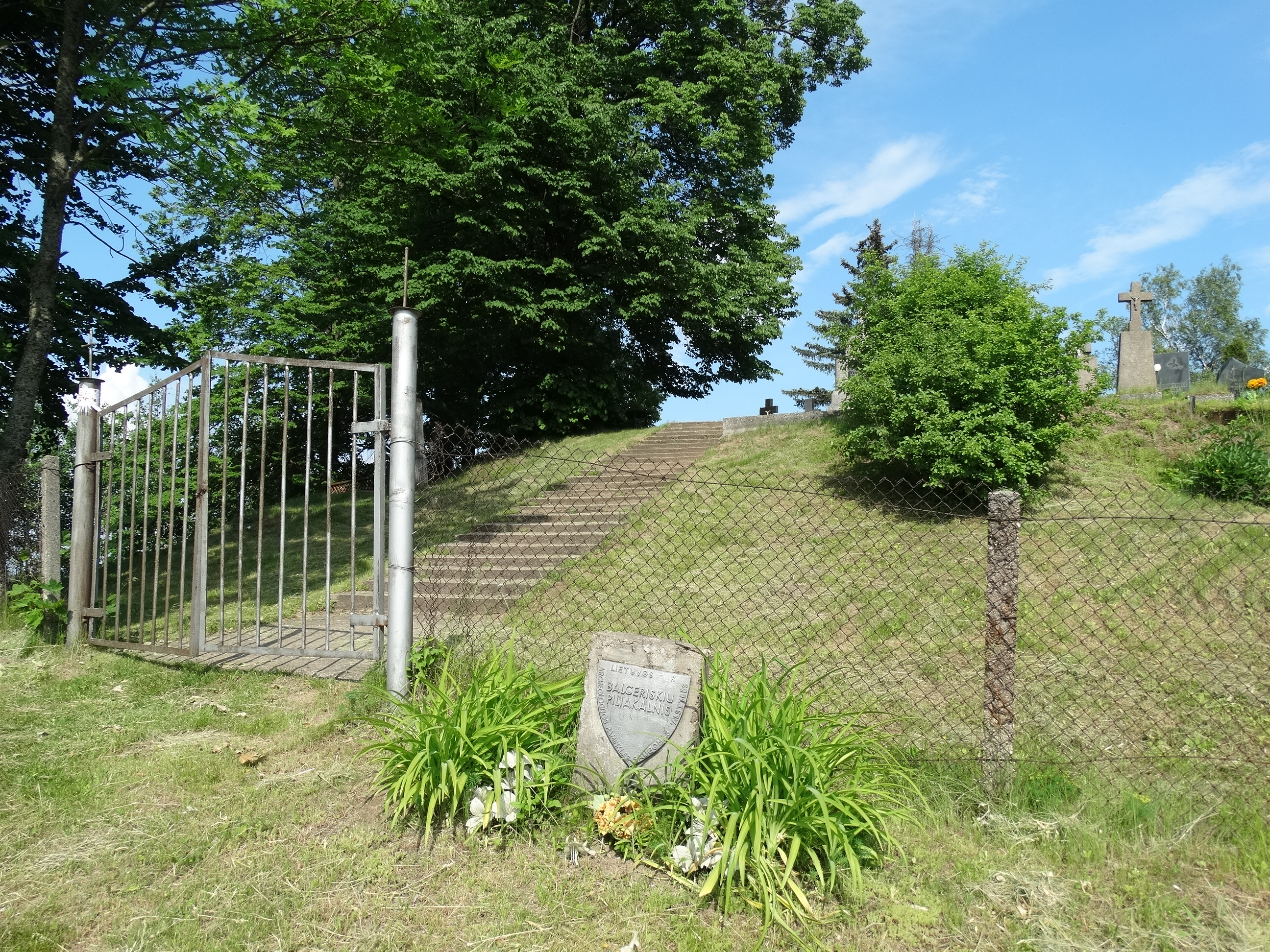 Hillfort in Balceriškės, Kaišiadorys, Lithuania